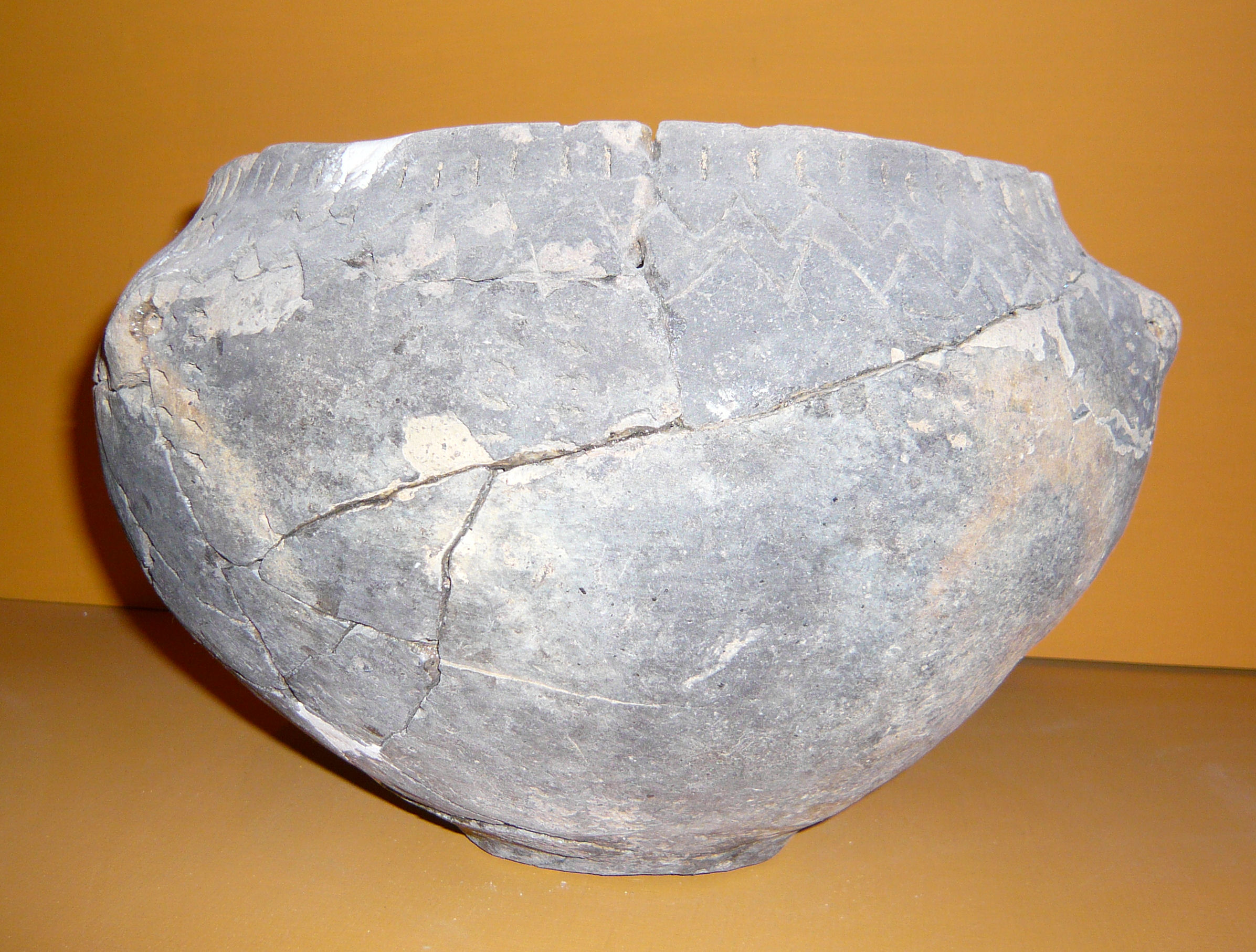 Corded Ware culture Krasnystaw Polnad